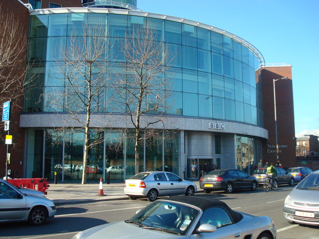 BBC Television Centre, Wood Lane, London W12